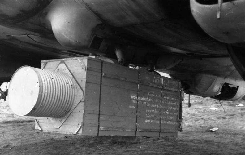 Purpose-built Airdrop Supply Crate, equipped with a parachute at one end and a buffer to reduce the force of impact on the other